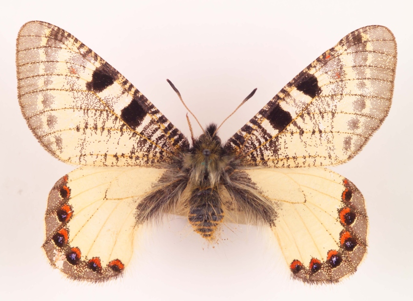 Archon apollinus Herbst, 1780 Male Beirut, Lebanon